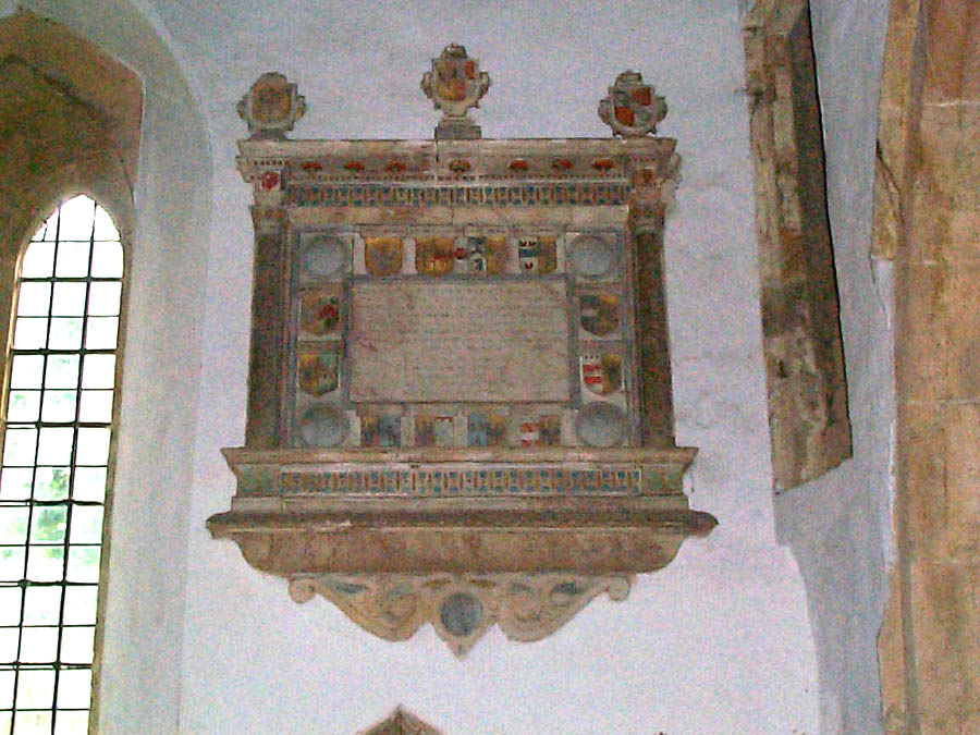 The memorial to John Temple and his children in Burton Dassett church.